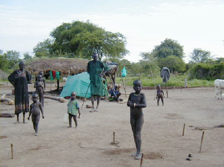 Women and children in a cattle camp outside of Rumbek (Rumbik), Lakes State, in central South Sudan.